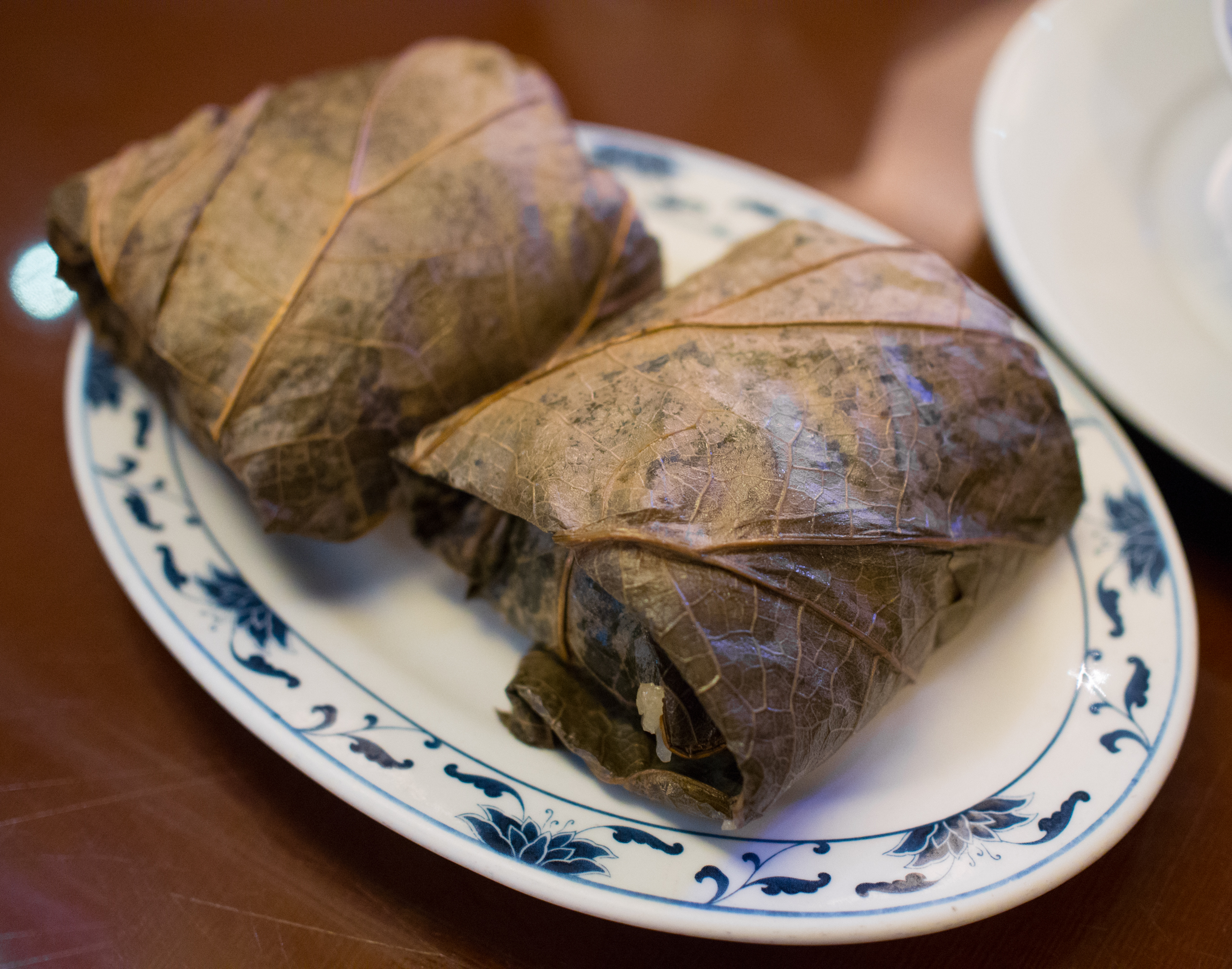 Lo Mai Gai at a Cantonese restaurant in The Hague, Netherlands.